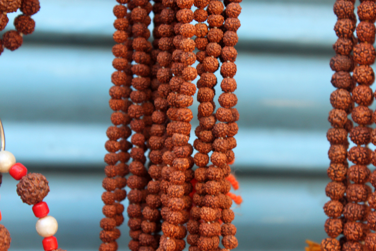 prayer rosary beads